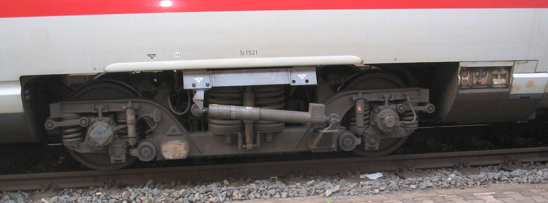 Bogie of an ICE-T with tilting technique by FIAT Ferroviaria